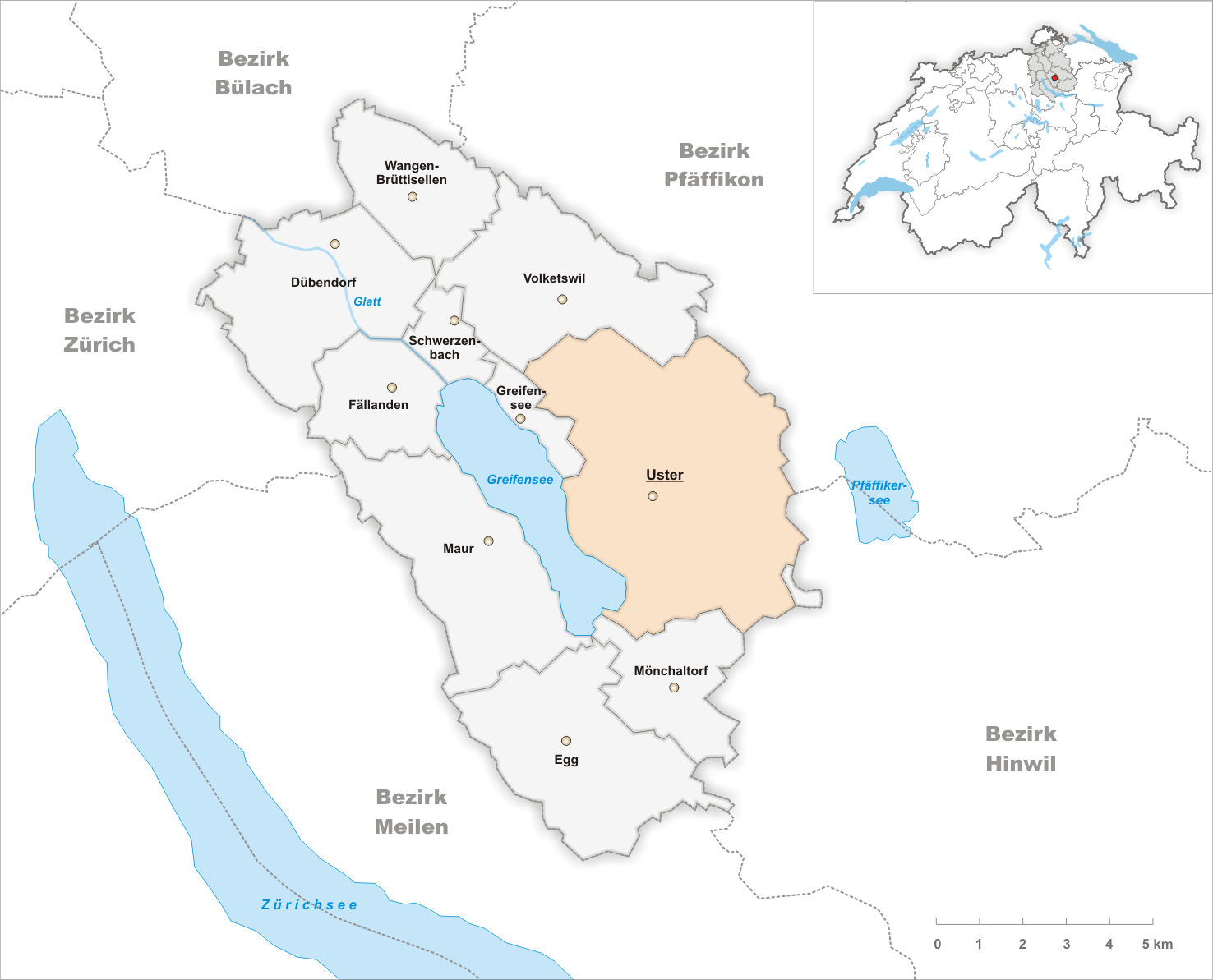 Municipality Uster